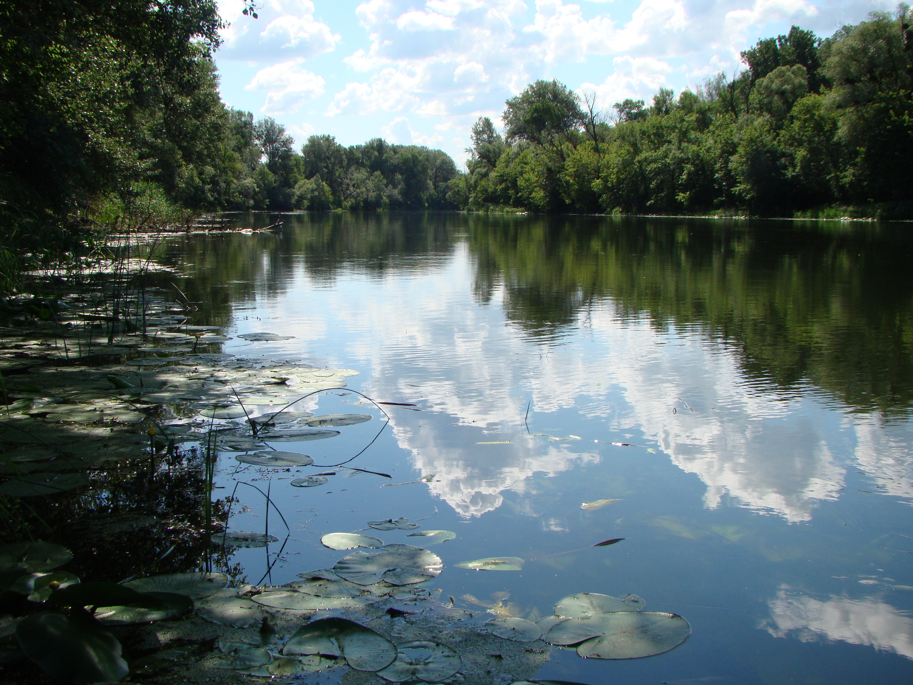 River Severskiy Donets